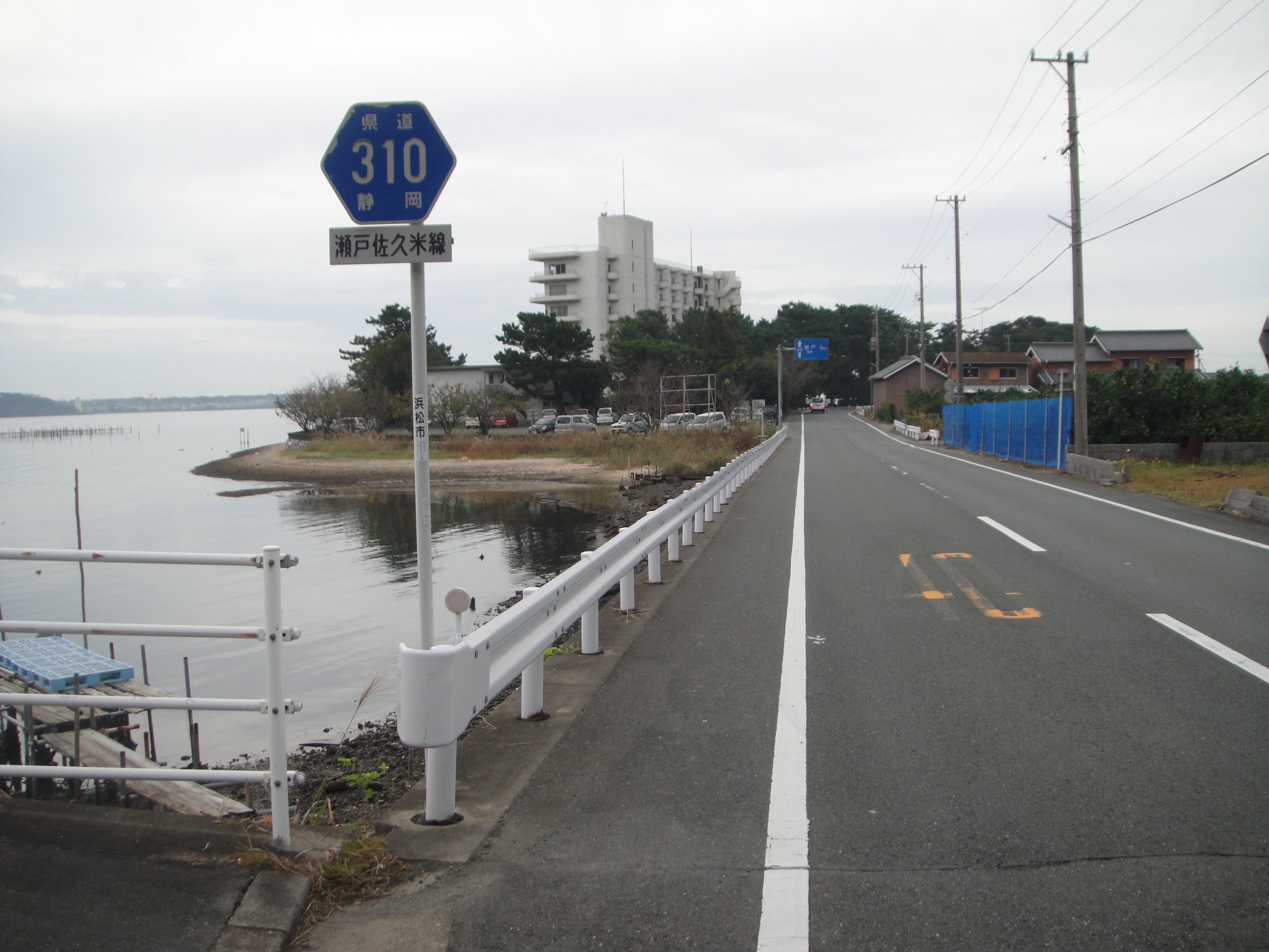 Shizuoka Prefectural Road No.310